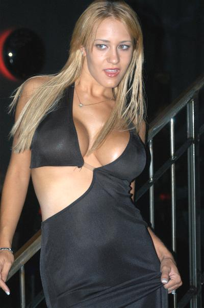 Photo of Trina Michaels.